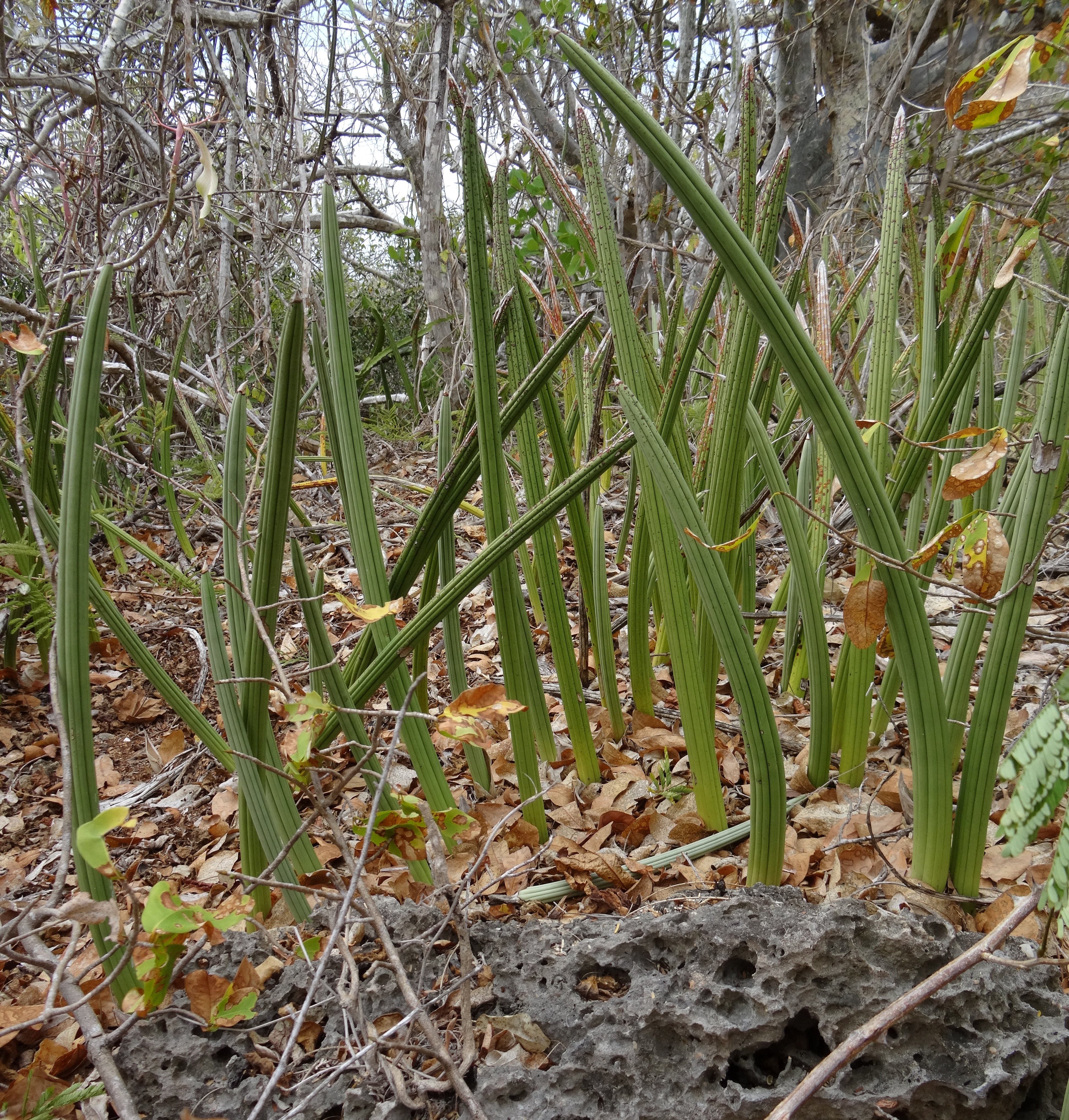 Sansevieria canaliculata on a fóssil coral bank, close to the Indian Ocean, Mecúfi District in Northern Mozambique.